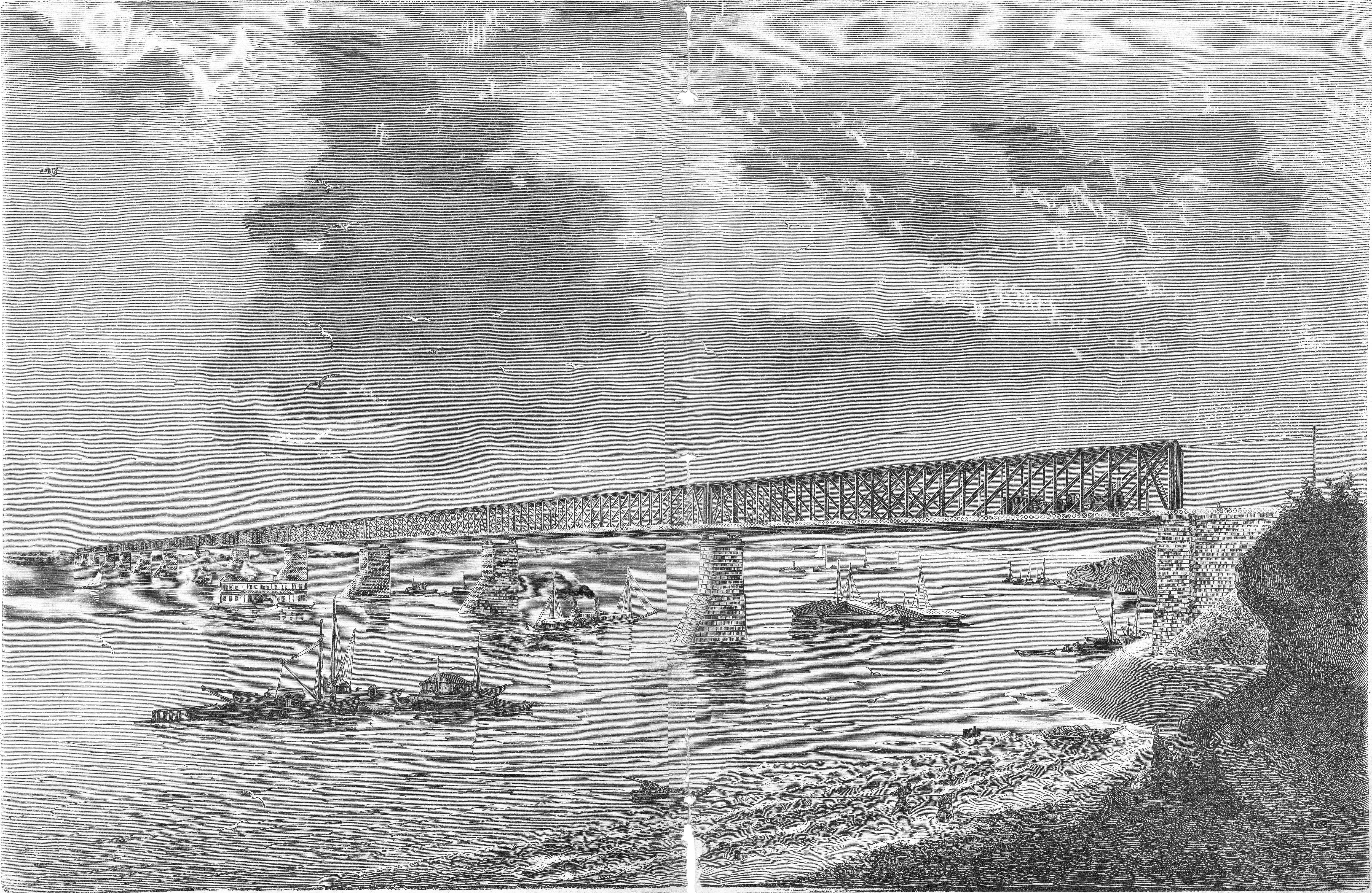 Syzranskiy Bridge (Alexandrowskiy bridge) after its opening in 1880